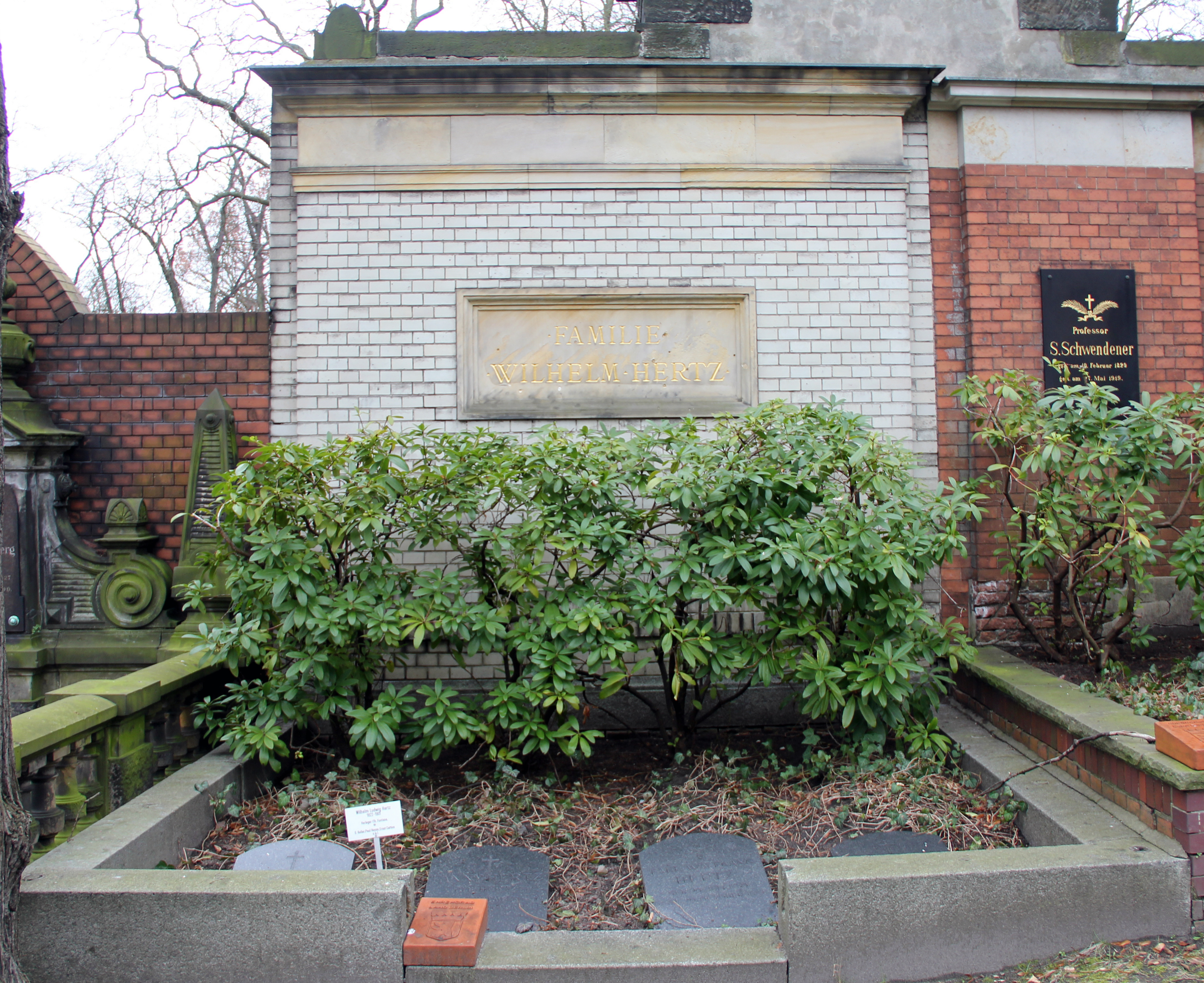 Grave of honor, Wilhelm Ludwig Hertz, Großgörschenstraße 12, Berlin-Schöneberg, Germany